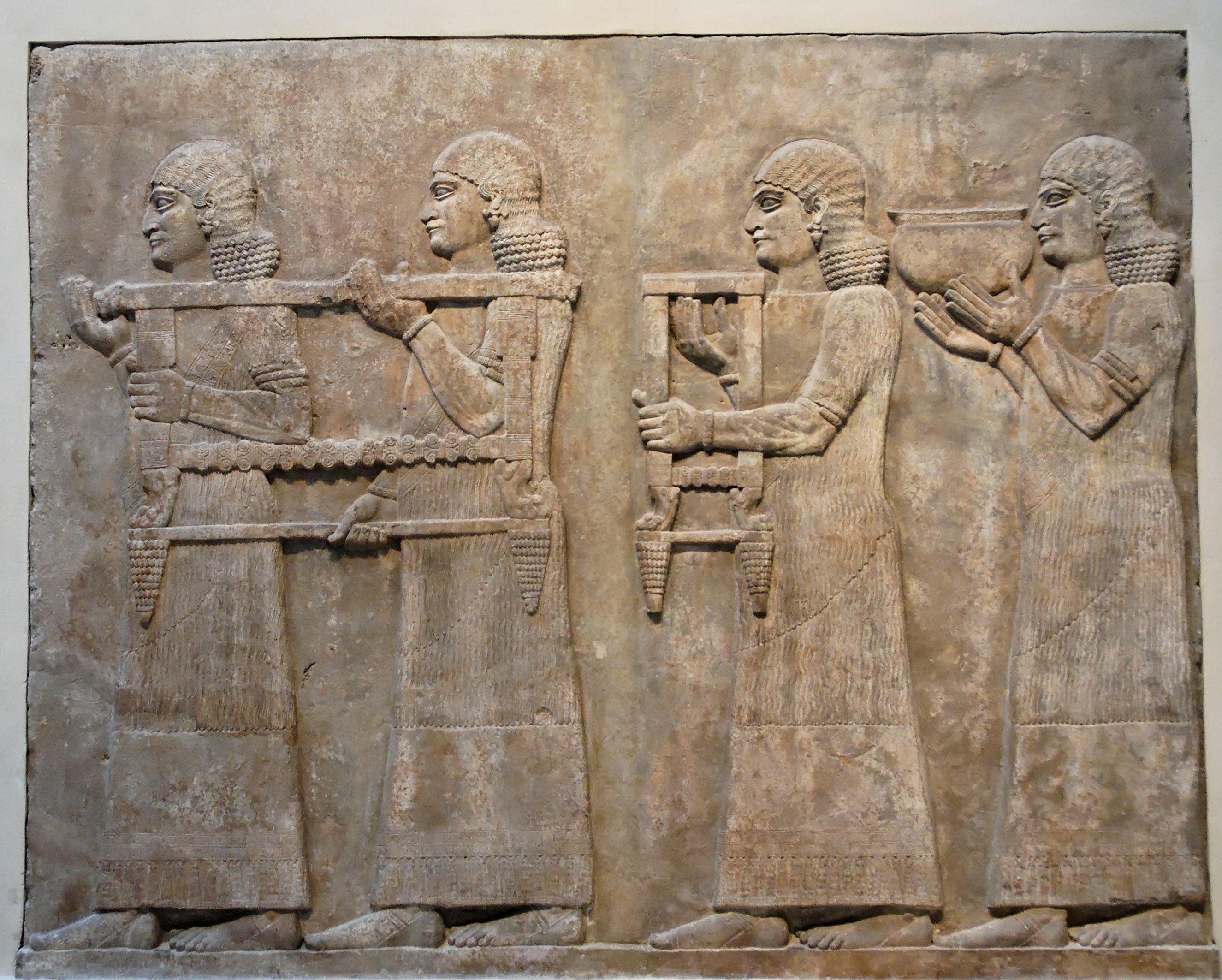 Servants holding a bench, a seat, and a vase. Low-relief from the L wall of the palace of Sargon II Dur Sharrukin, Assyria (now Khorsabad in Iraq), ca. 713–716 BC.